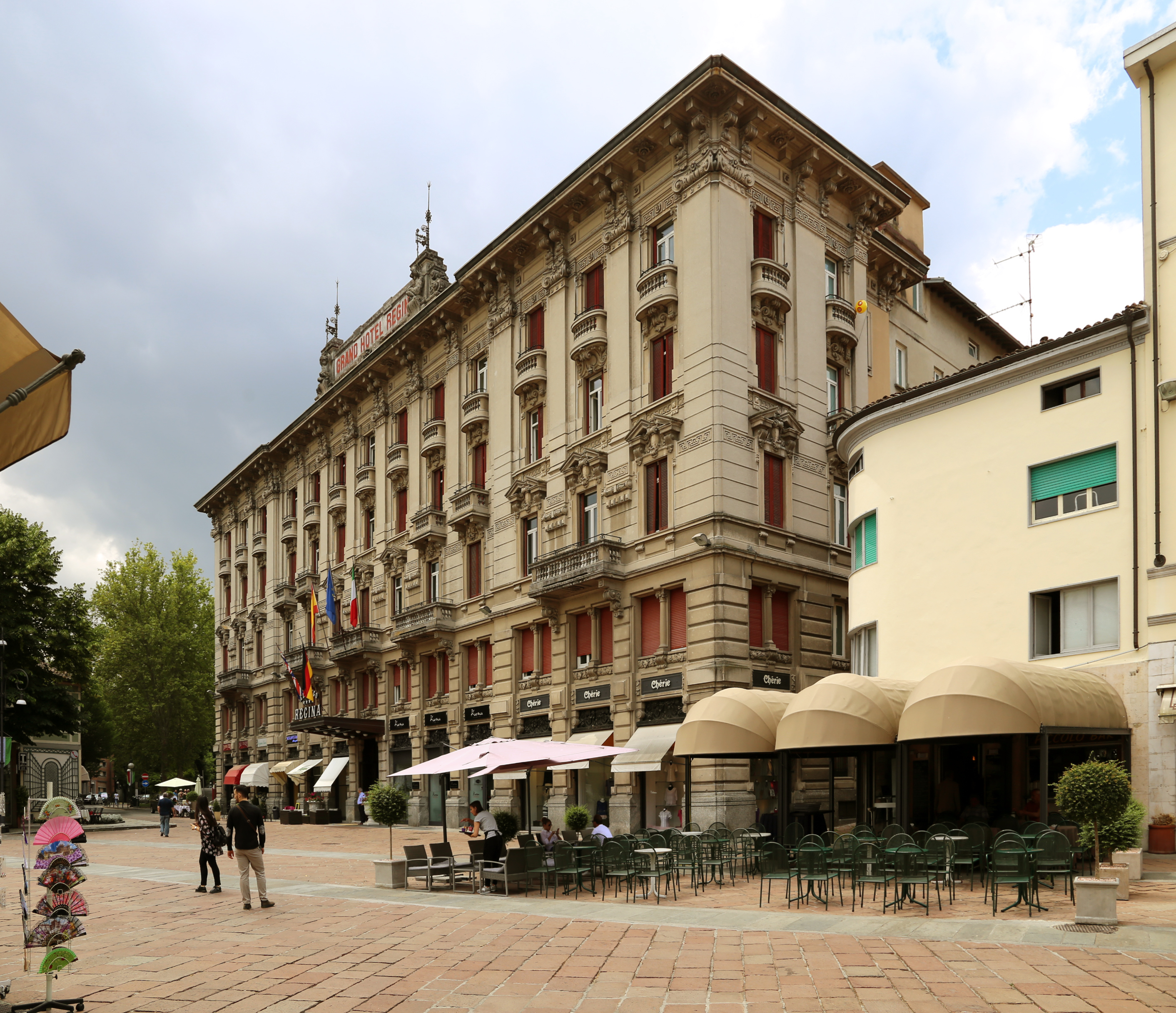 Buildings in Salsomaggiore Terme